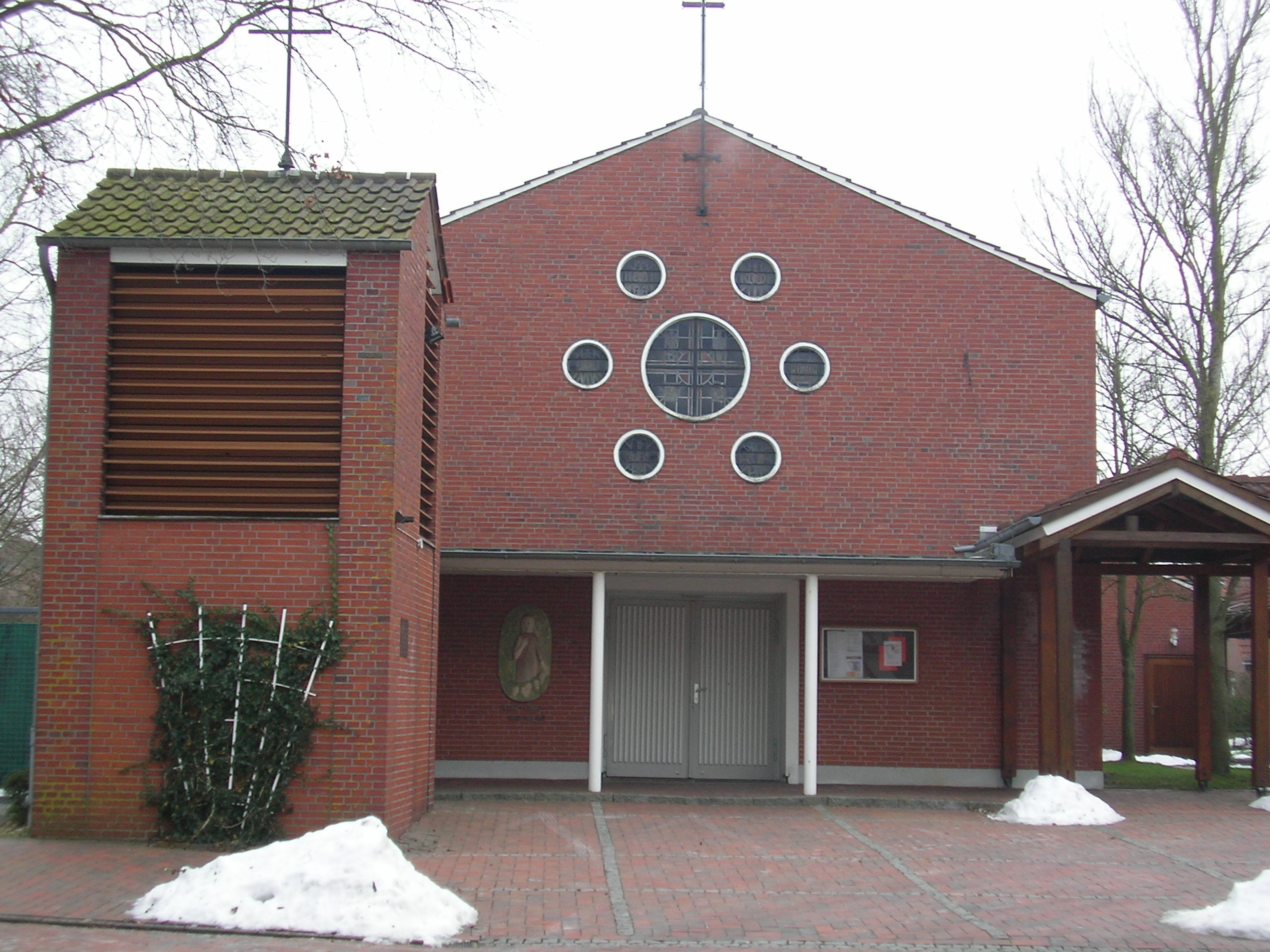 St. Boniface Church Wittmund